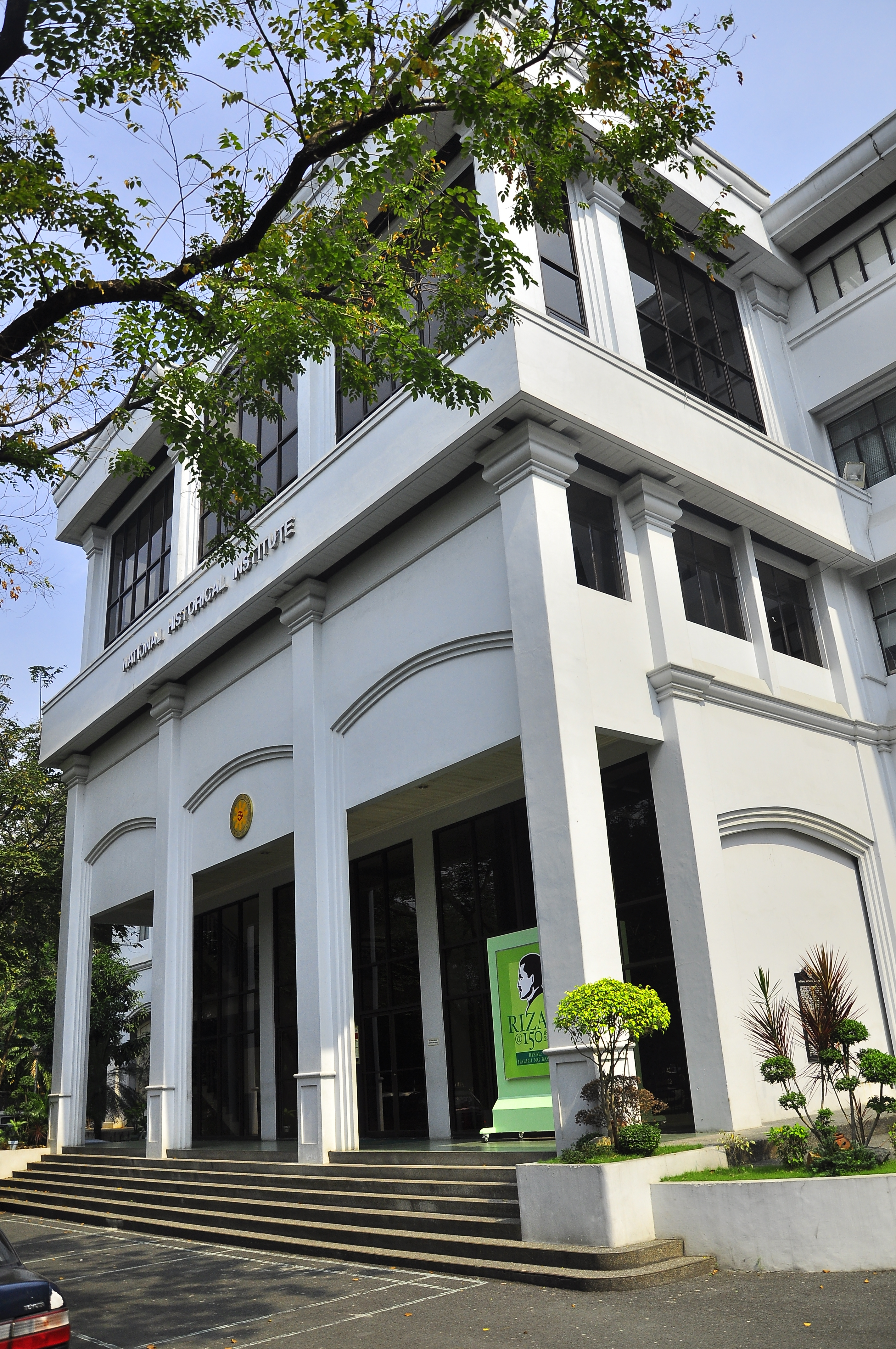 National Historical Commission of the Philippines (National Historical Institute) in Manila, Philippines